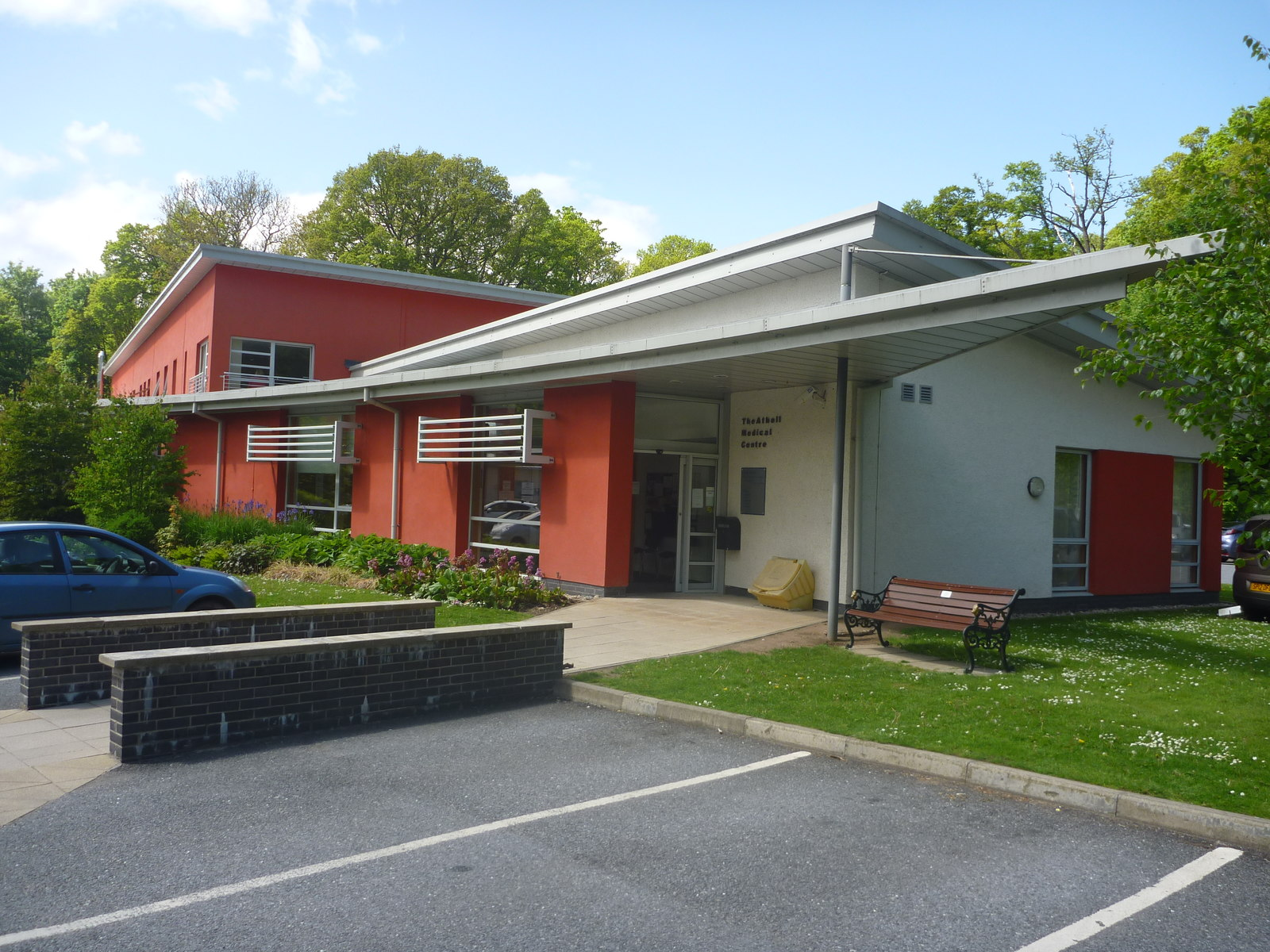 Perthshire Architecture : The Atholl Medical Centre, Pitlochry